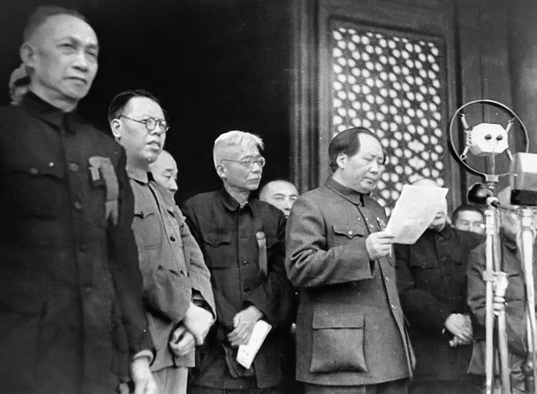 Obtained the original monochromatic photograph of Chairman Mao Zedong proclaiming the People's Republic of China on 1 October, 1949, and colorized it using Adobe Photoshop